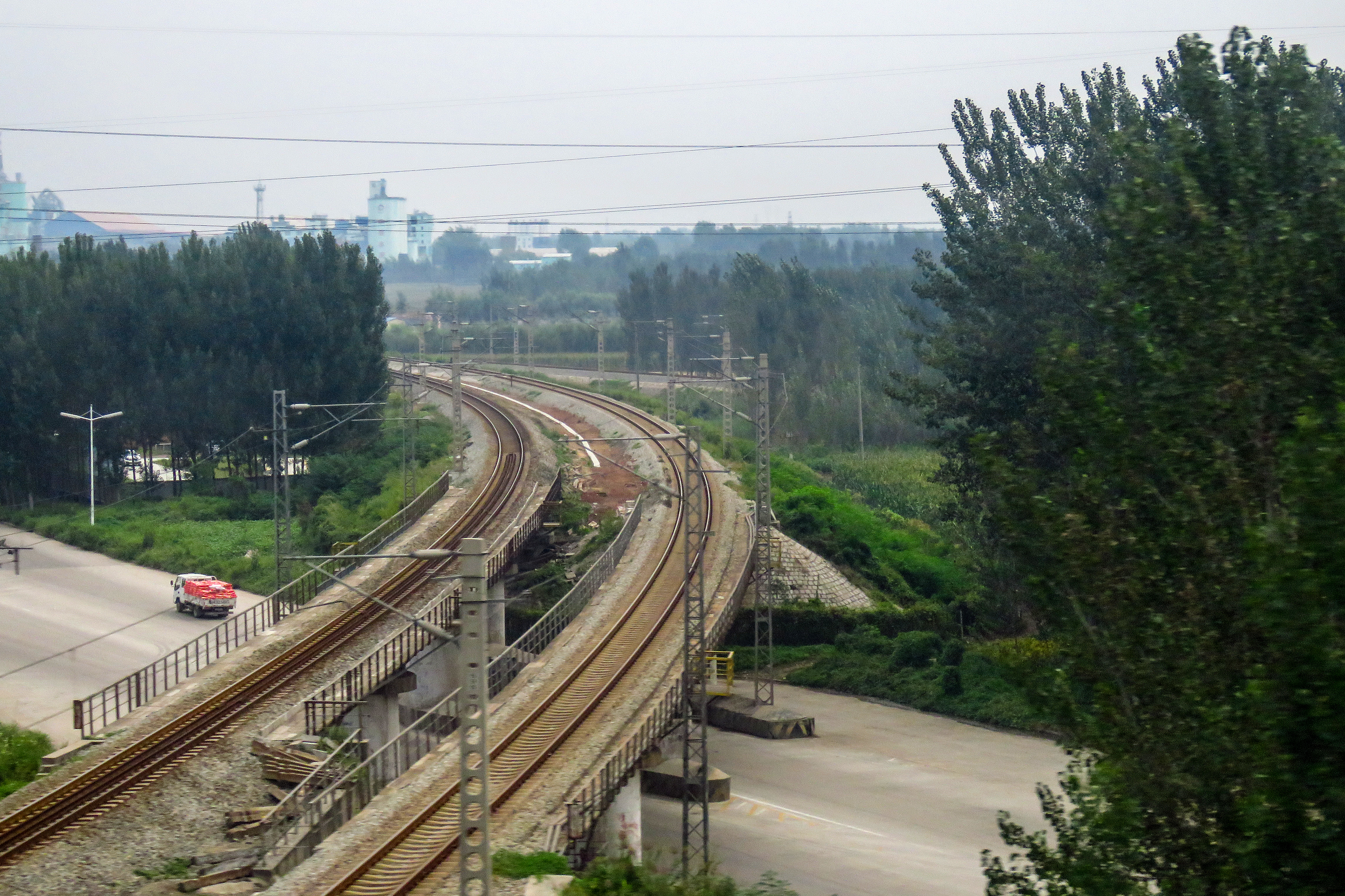 Taken from G1. Qufu was once at disadvantage in terms of rail transport, but things changed in 2011 with the help of Beijing-Shanghai HSR. Maybe Confucius will appear in the form of augmented reality when trains pass here?